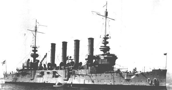 Official US Navy Photo taken from NavSource (